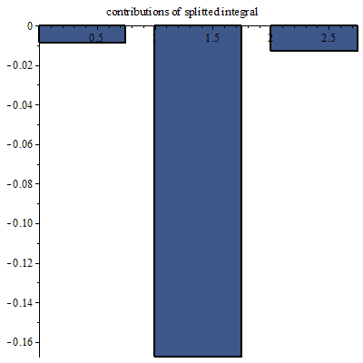 Contribution ofstationary phase region of oscillatory integrand